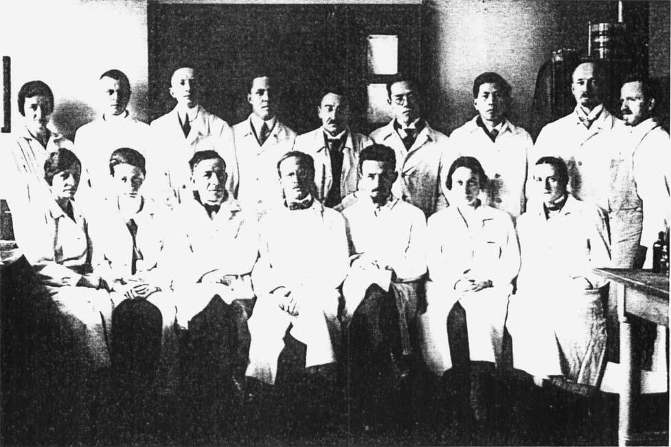 Walther Spielmeyer and his team in 1927. Standing (from left to right): Eversbusch, Julius Hallervorden, Paul Quast, Oskar Gagel, Kutter, Yushi Uchimura, Yushi Funakawa, Metz, Deisler. Sitting: Adele Grombach, Gamper, Eduard Gamper, Spielmeyer, Hugo Spatz, unknown, unknown.